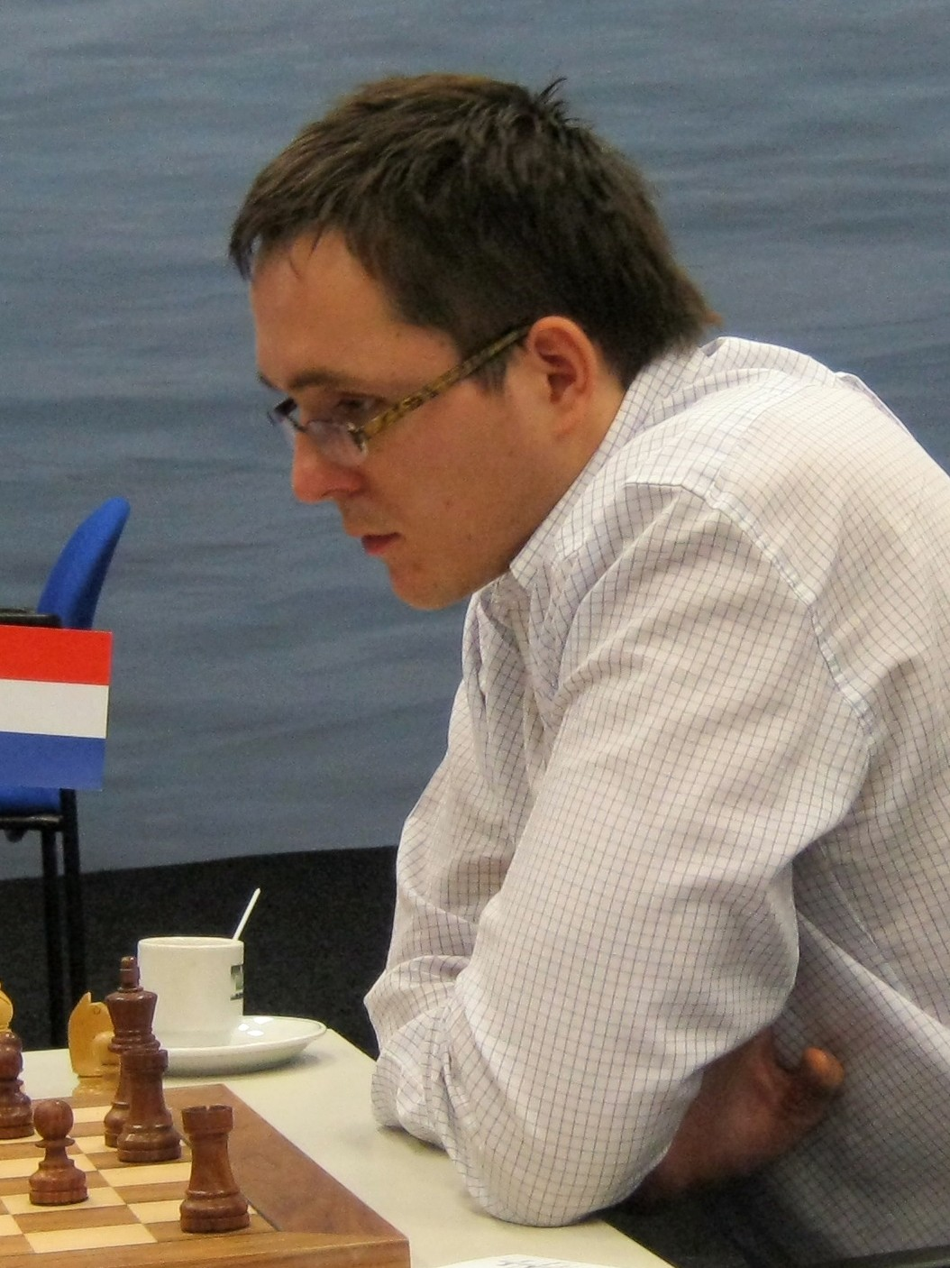 Sipke Ernst, chess grandmaster from the Netherlands